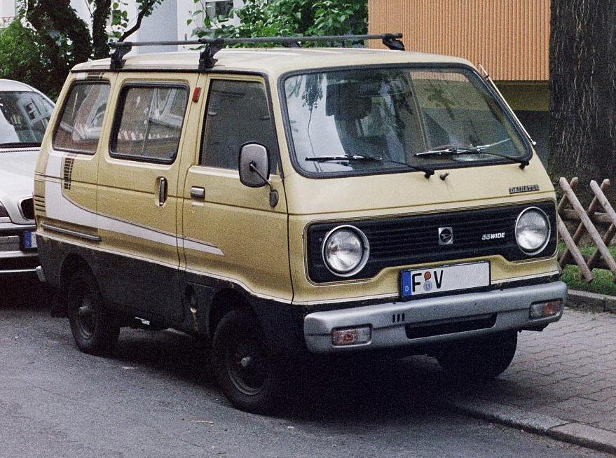 Daihatsu Hijet 55 Wide in Frankfurt am Main, 2001. This one is built after the September 1979 facelift, when the one-piece grille and headlight surround was fitted.